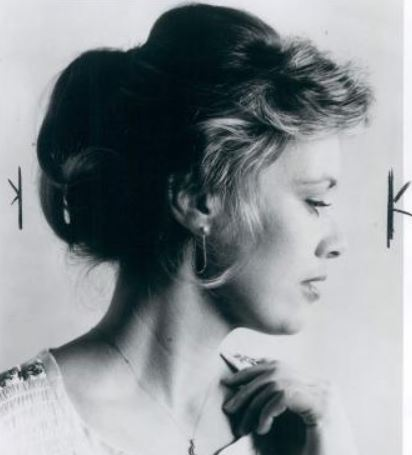 Janie Fricke original promotional photograph by Columbia Records (1978).